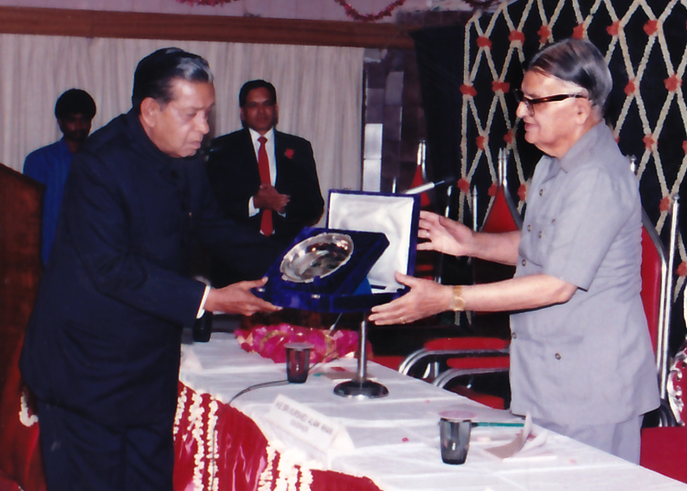 Award to MS Ramiah